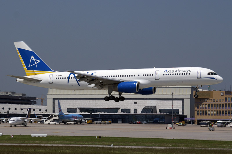 Axis Airways Boeing 757-200 ER in Stuttgart